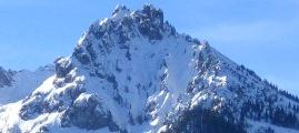 winterview of the three sisters (mountain) from the point of frastanz